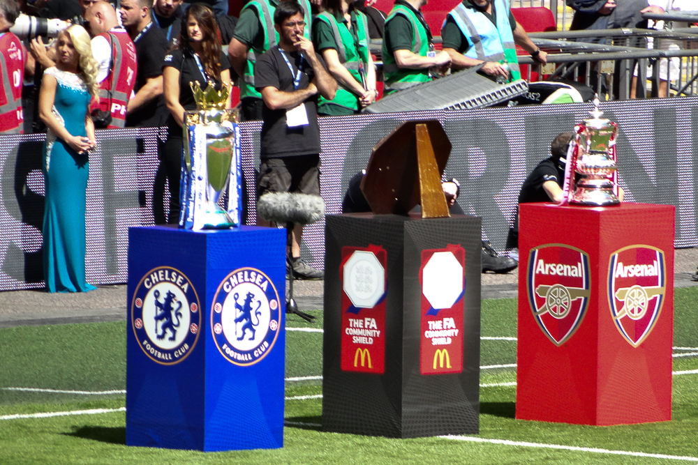 Community Shield at Wembley 6.8.17